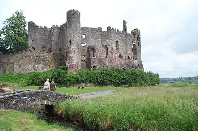 Laugharne Castle